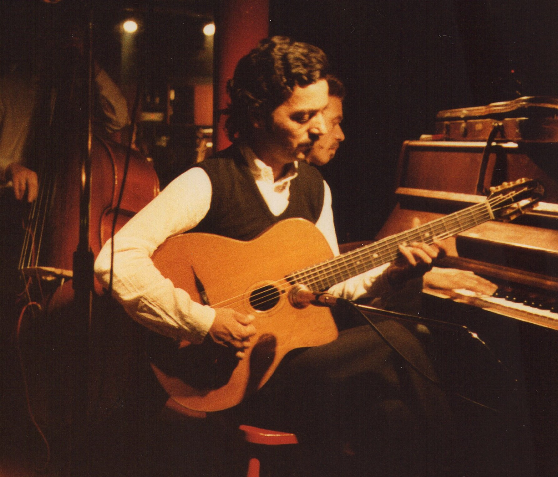 Fapy Lafertin, guitarist on stage with the group "Waso" at Pizza Express, London, 1983 (photograph by Tony Rees)